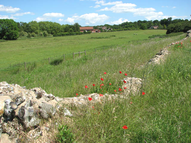 Venta Icenorum - view along the north wall, near to Caistor st Edmund, Norfolk, Great Britain. Old Hall Farm can be seen in the background (in adjacent grid square). Before the arrival of the Romans in the area, Norfolk and Suffolk were the home of the Iceni, who in AD 61 rebelled against Roman rule, led by their Queen Boudica. The revolt was suppressed and the town of Venta Icenorum was established in order to bring stability to the area. 'Venta Icenorum' means 'Market Place of the Iceni'. The outline of the streets, which are arranged in a rectangular pattern, can be seen in dry weather as brown lines in the grass, where sheep now graze a large pasture which once used to be the town centre. A massive flint and stone wall of up to 7 metres high and 4 metres thick, and an outer ditch were constructed in the late AD 200s to defend the town which by then had decreased in size to about 14 hectares. The ditch was 24 metres wide and about 5 metres deep. The site is owned and managed by the Norfolk Archaeological Trust and can best be seen from elevated positions of the A140 (Ispwich Road) or from the main London to Norwich railway line. There are two signposted walks, one leading around the Roman defences, the other following the course of the River Tas. Just to the east of the site there is a Early Saxon cemetery, and on raised ground to the north both an Iron Age burial site and Saxon cemetery have been excavated. The Arminghall Henge is located to the north-east.